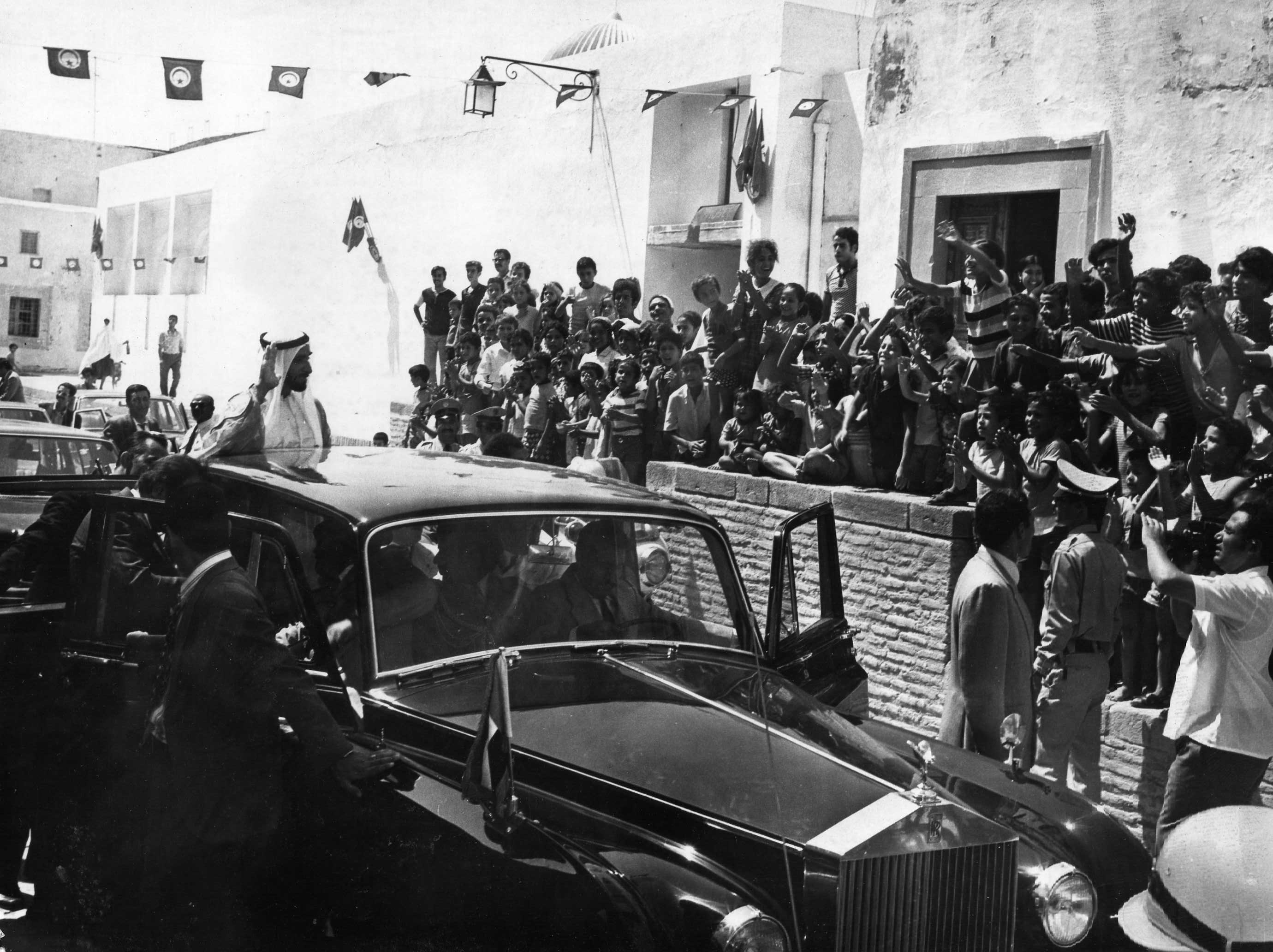 Tunisian acclaiming Sheikh Zayed President of UAE during its visit to Kairouan, Tunisia